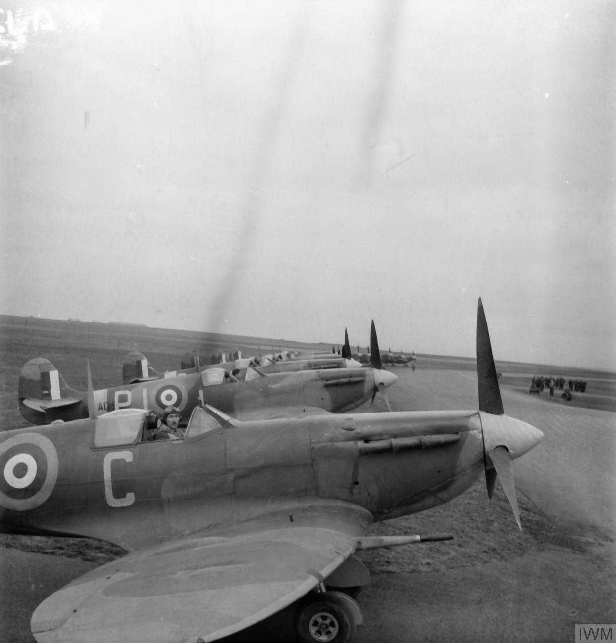 Royal Air Force Fighter Command, 1939-1945. Supermarine Spitfire Mark VBs of No 130 Squadron RAF, lined up at Perranporth, Cornwall.